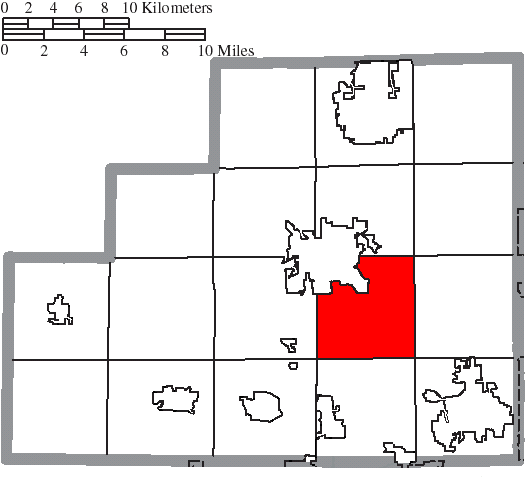 Map of the municipal and township boundaries of Medina County, Ohio, United States, as of the 2000 census, with the location of Montville Township highlighted. Township borders are shown only in unincorporated areas in order to differentiate incorporated and unincorporated areas more clearly.